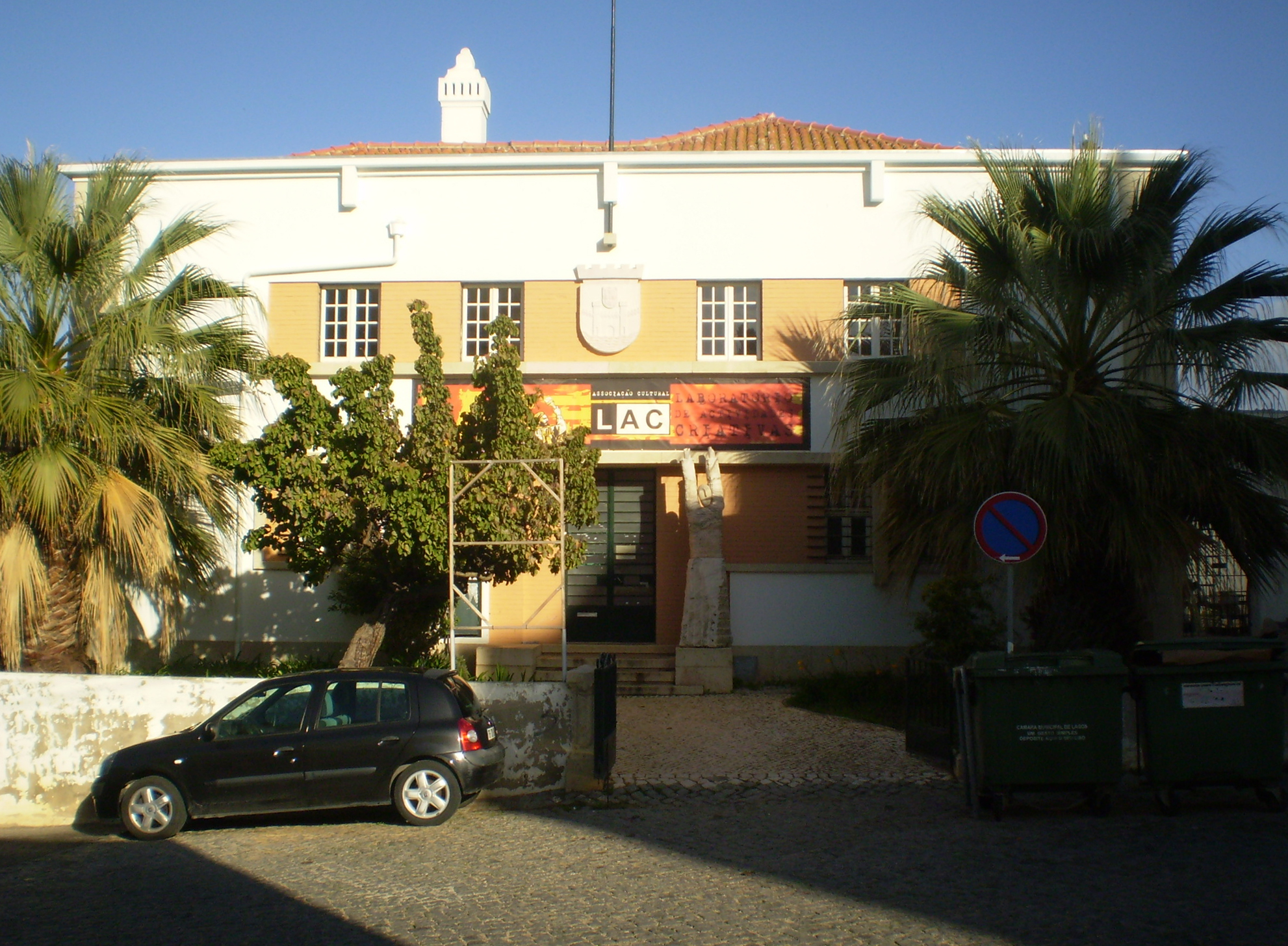 Laboratório de Actividades Criativas, in the old Lagos prison, built on the location of the church of the Nossa Senhora do Loreto convent, in the city of Lagos, in Portugal.